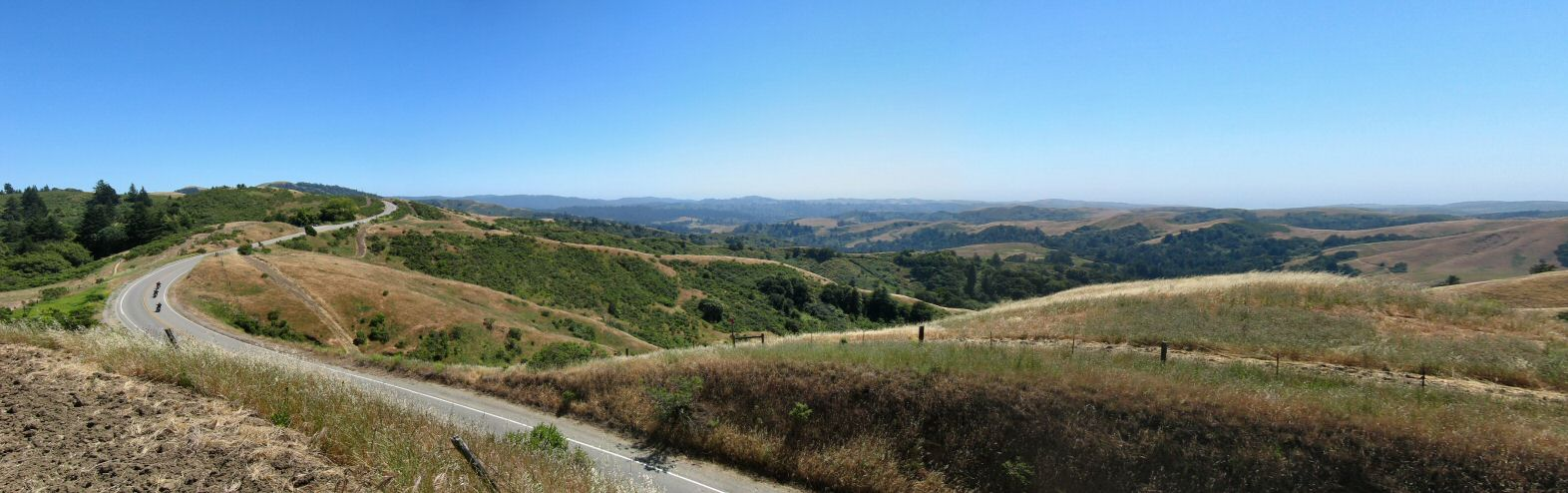 A section of Skyline Blvd in the Santa Cruz Mountains of Northern California. This segmented panoramic photograph consists of several individual images.